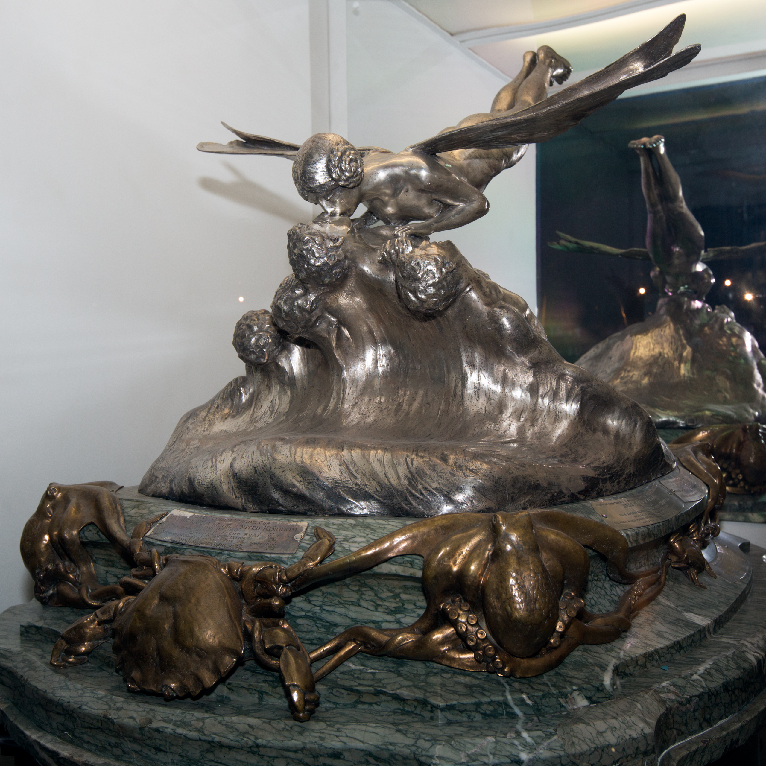 Schneider Trophy